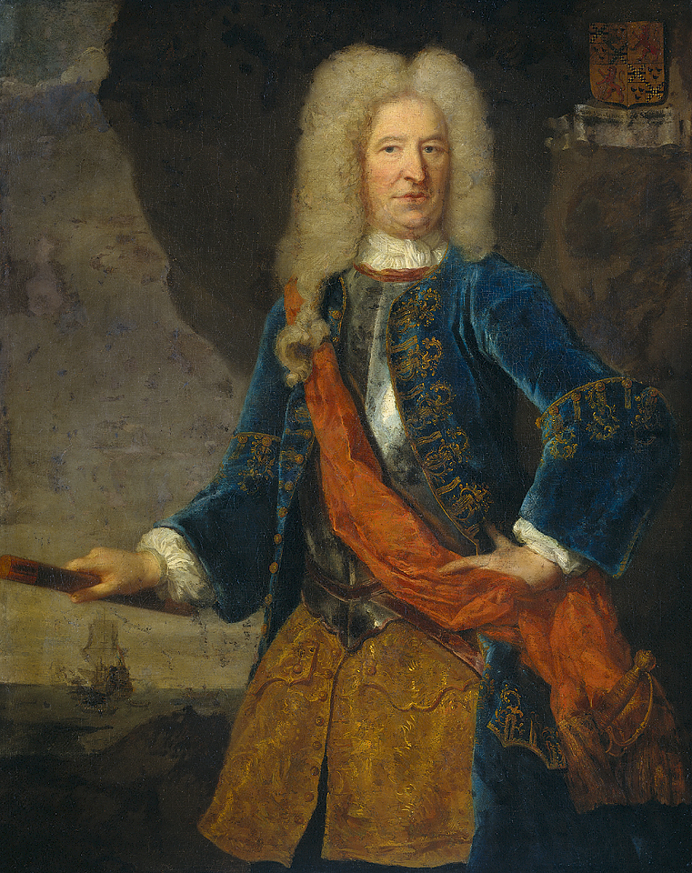 Portrait of François van Aerssen at half-length. Part of a series of half-length portraits of the Van Aerssen family.